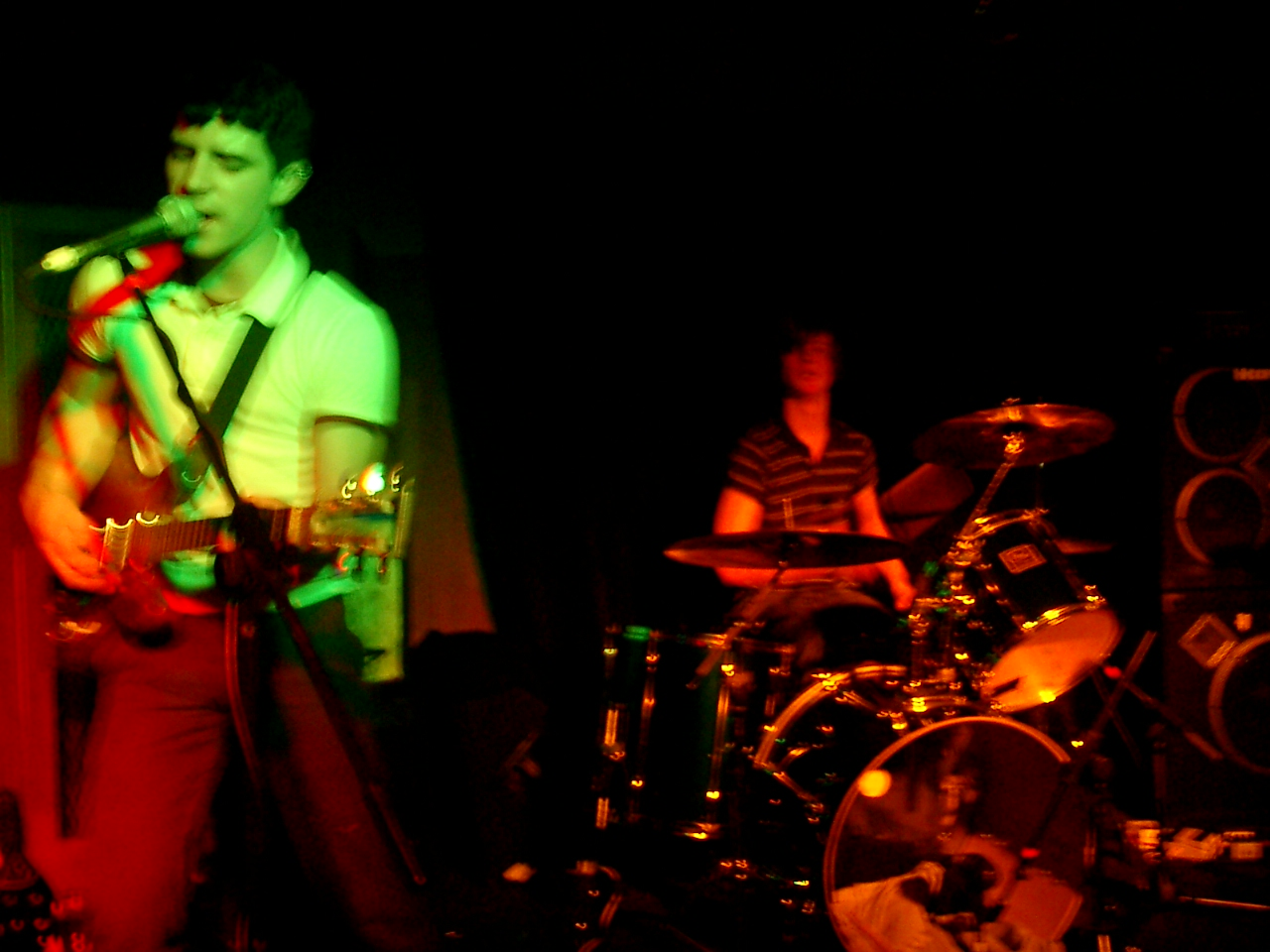 Yannis Philippakis and Jack Bevan of The Edmund Fitzgerald on stage at The Luminaire in Kilburn, London, in March 2005